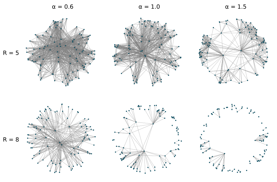 The six graph were generated randomly and contain N=100 nodes each. Different values for alpha and the radius R of the hyperbolic disk were used. The graphs are drawn in the native representation.